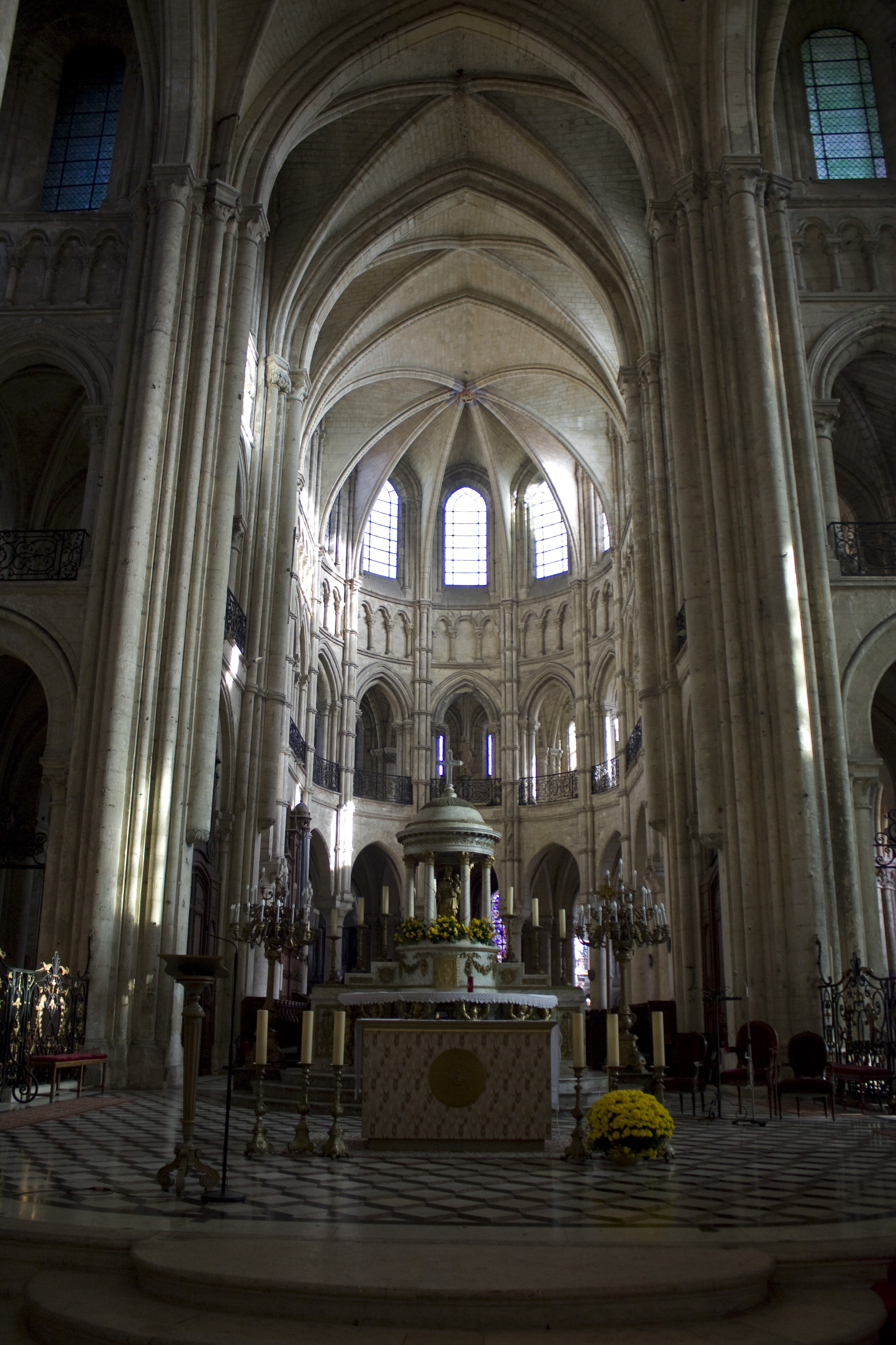 Choir, chevet and apse viewed from the transept crossing.